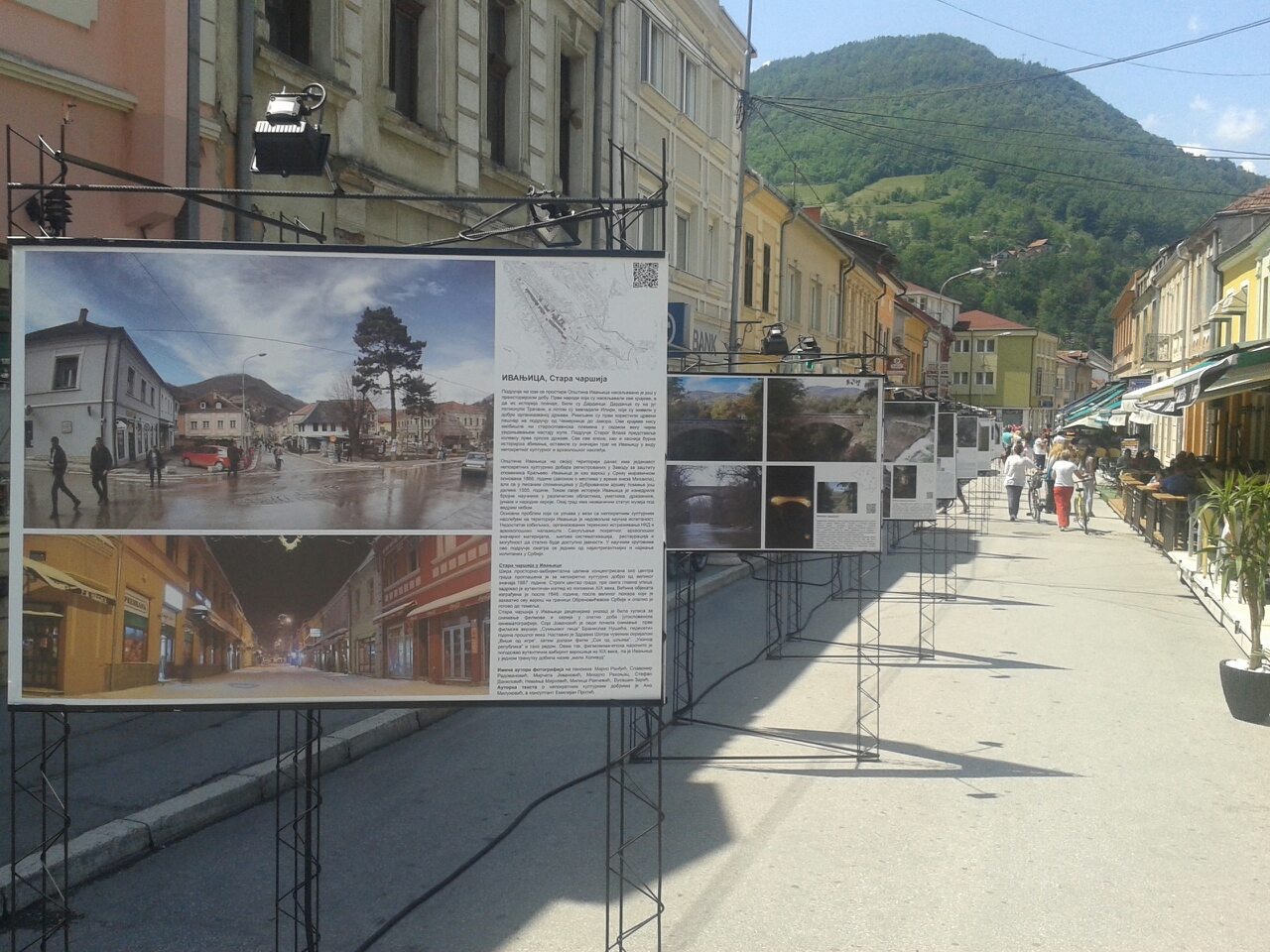 QRpedia's QR codes, Museum Night 2014 in Ivanjica001